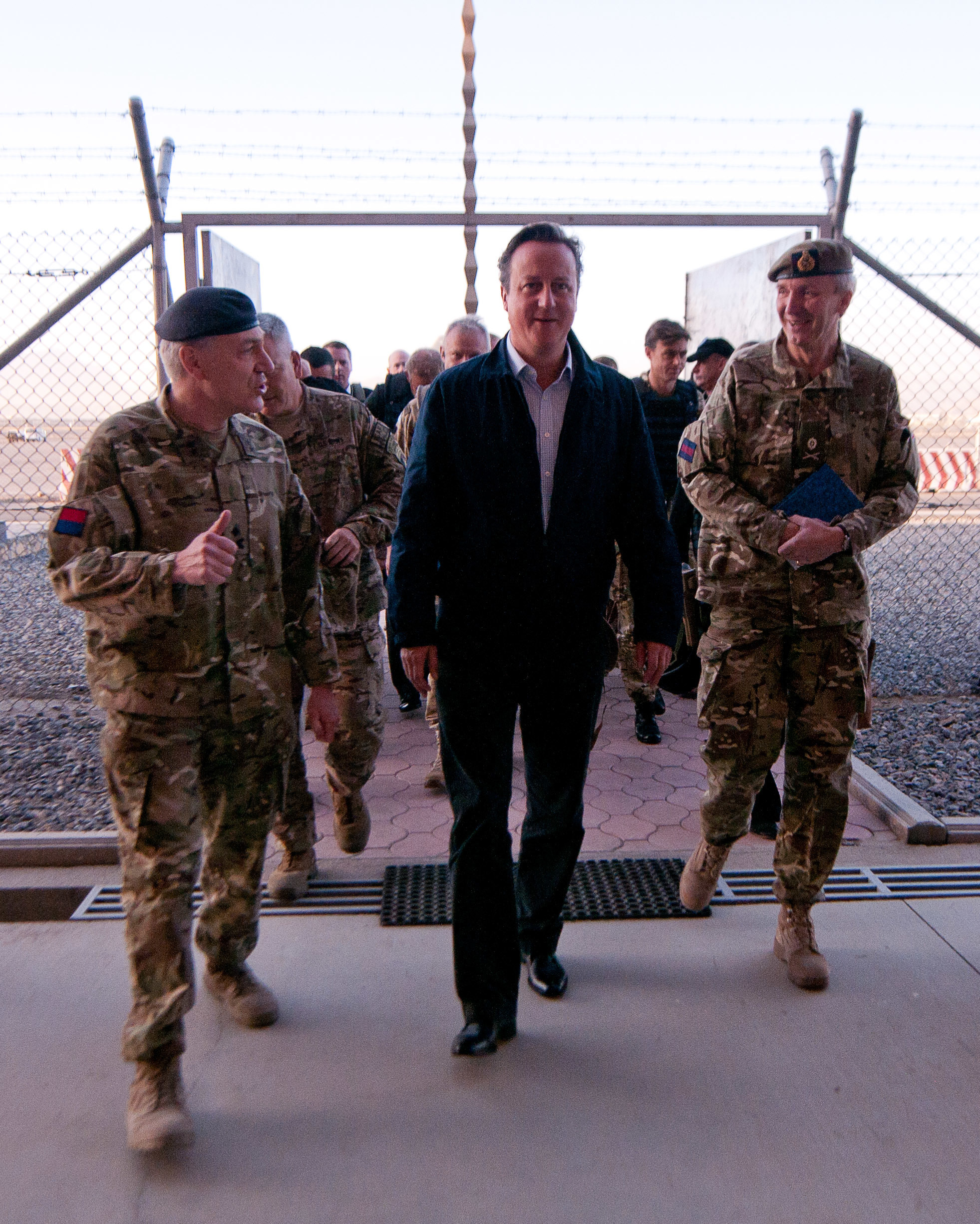 British Prime Minister David Cameron (center), British Maj. Gens. Richard Nugee, International Security Assistance Force Joint Command chief of staff (left) and Ben Bathurst, ISAF deputy advisor to the Afghan Ministry of Defense (right), walk into Kabul International Airport Oct. 3, 2014. During his surprise visit to Kabul, Cameron highlighted the success of British combat and training operations in Afghanistan. “They have done vital work here,” Cameron said. “We have trained up an effective Afghan army and police force. It has been hard, patient work.”